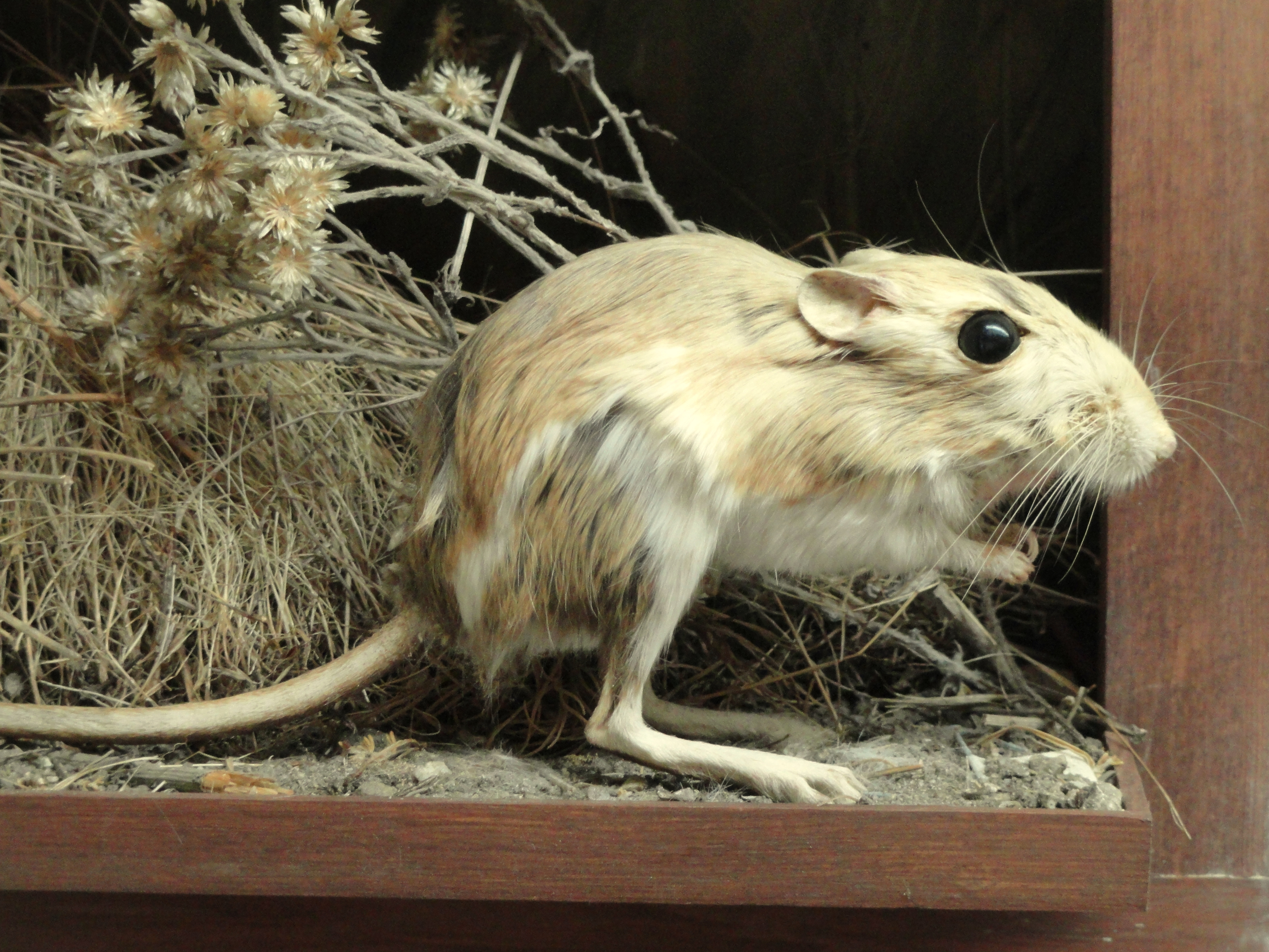 Exhibit in the Pacific Grove Museum of Natural History, Pacific Grove, California, USA. Photography was permitted without restriction in the museum.